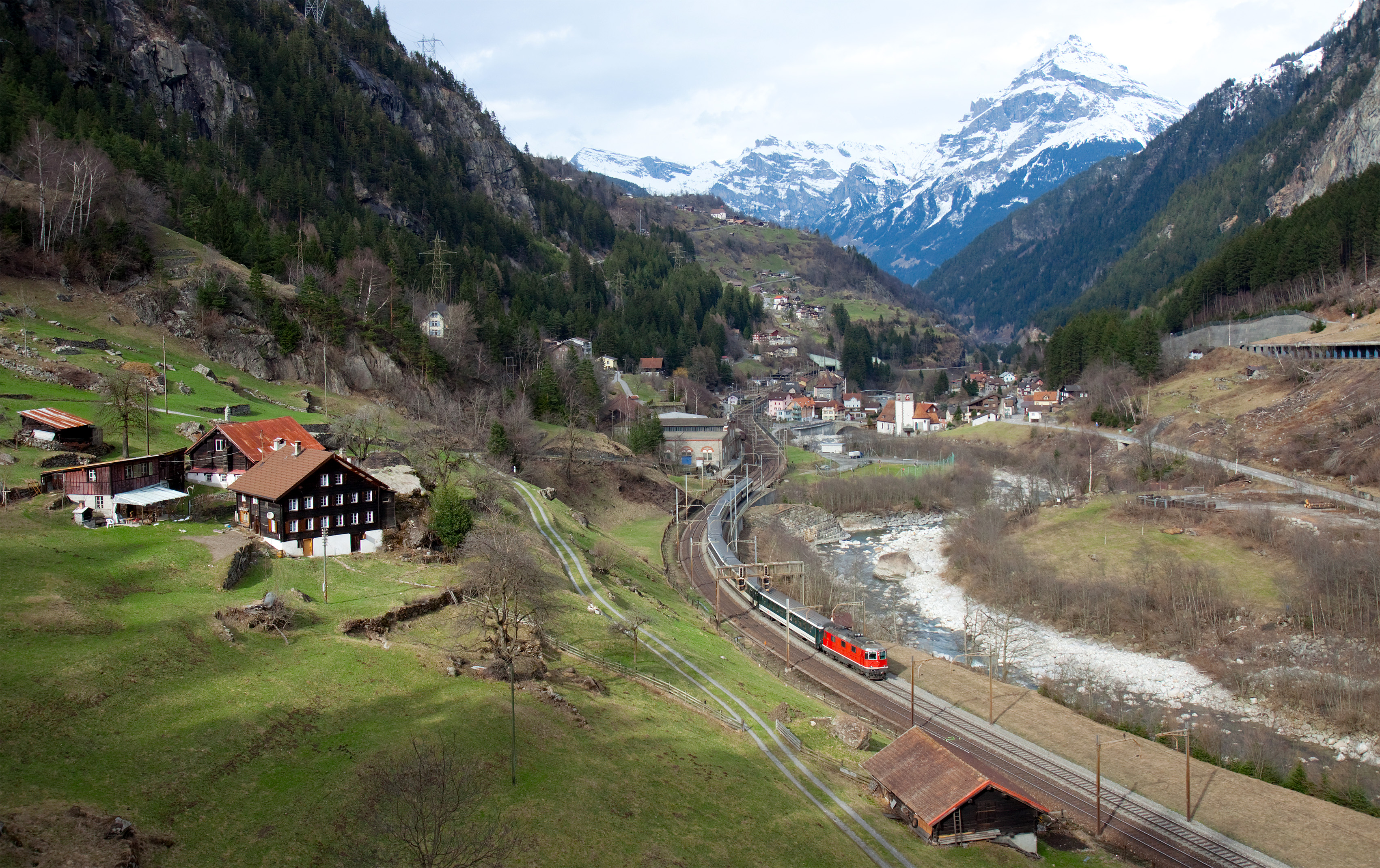 Swiss Federal Railways Re 4/4II with an Interregio train on the Gotthard line near Gurtnellen